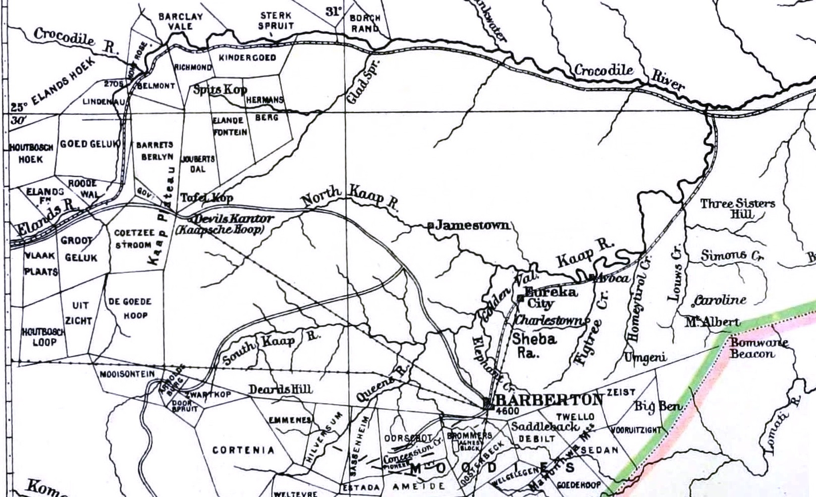 Title: The Castle Line atlas of South Africa : a series of 16 plates, printed in colour, containing 30 maps and diagrams, with an account of the geograaphical features , the climate, the mineral and other resources, and the history of South Africa. And an index of over 6,000 names Year: 1895 (1890s) Authors: Subjects: Publisher: London : D. Currie Text Appearing Before Image: fDelagOtf ¥ ^^ jeorge Fliilip & Son LondoniLiverpool Text Appearing After Image: 14